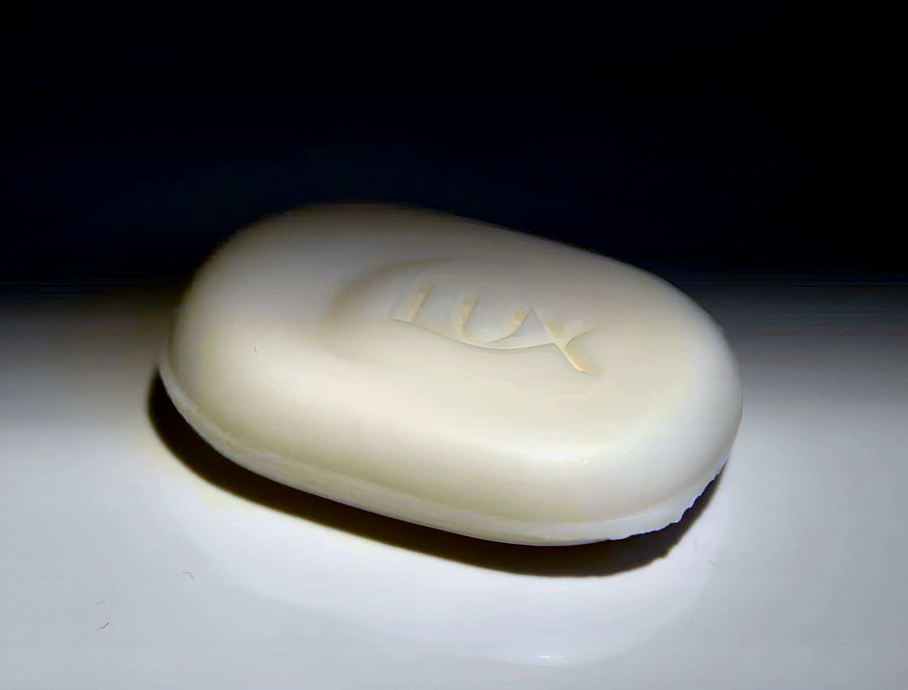 A bar of Lux soap.